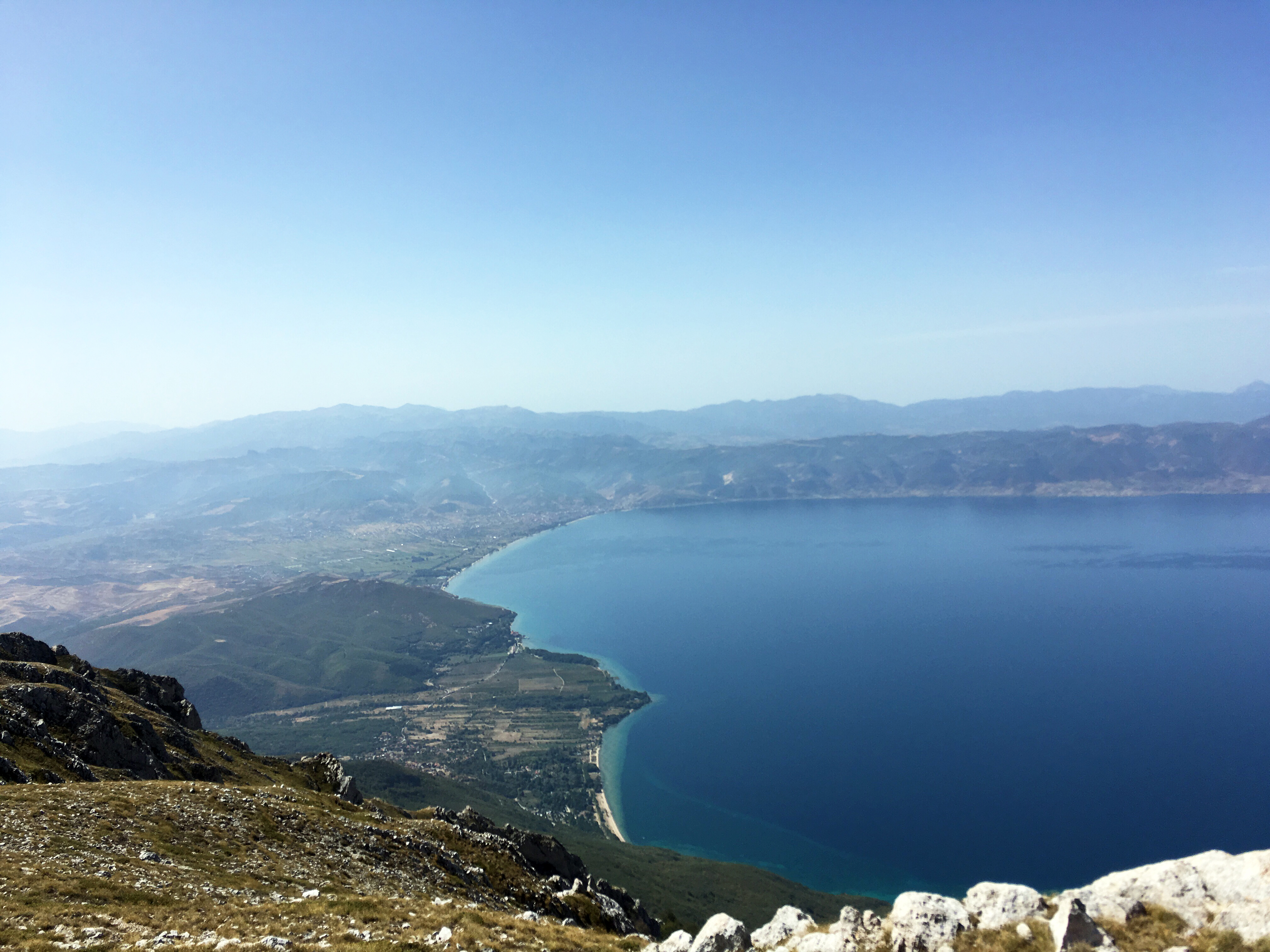 View of Pogradec and Lake Ohrid form top of Galicica